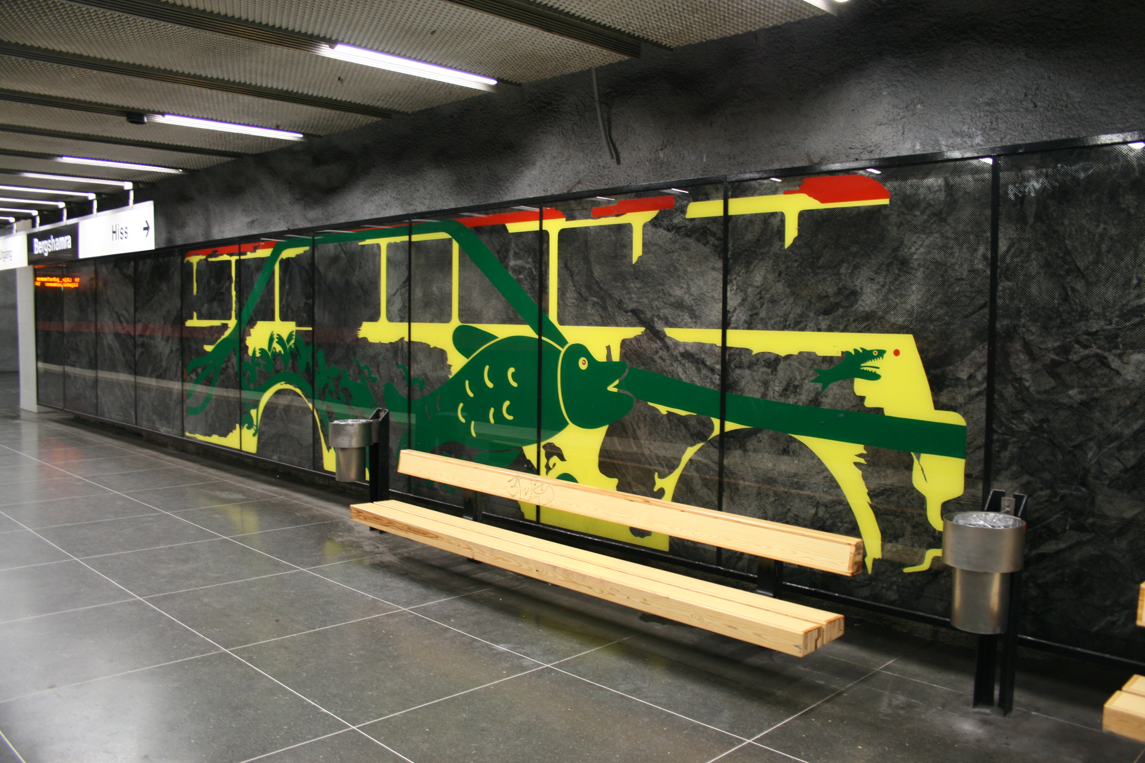 Artwork at the Stockholm metro station Bergshamra